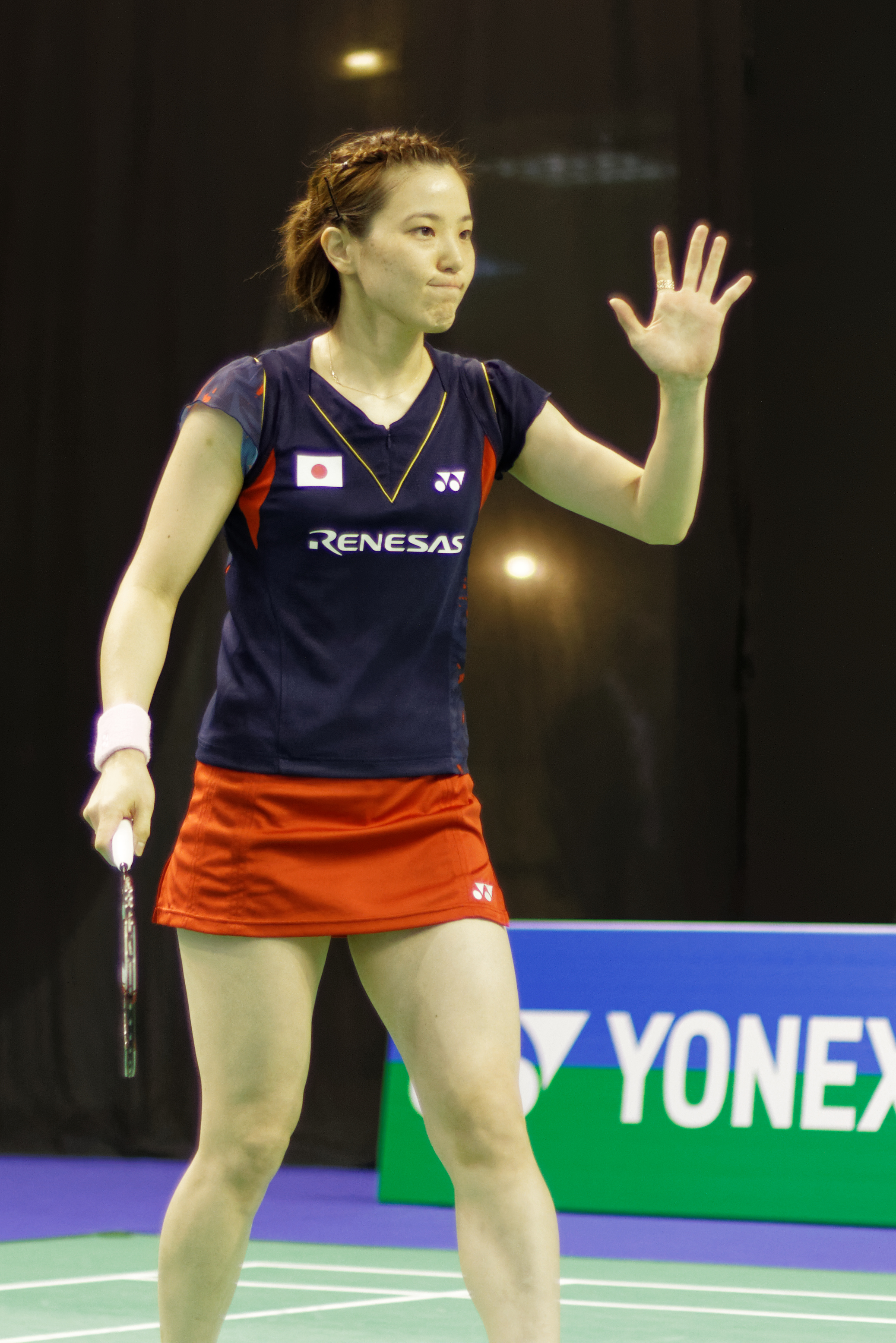 2013 French open. Women's doubles quarterfinal. Reika Kakiiwa and Miyuki Maeda vs Bao Yixin and Tang Jinhua.